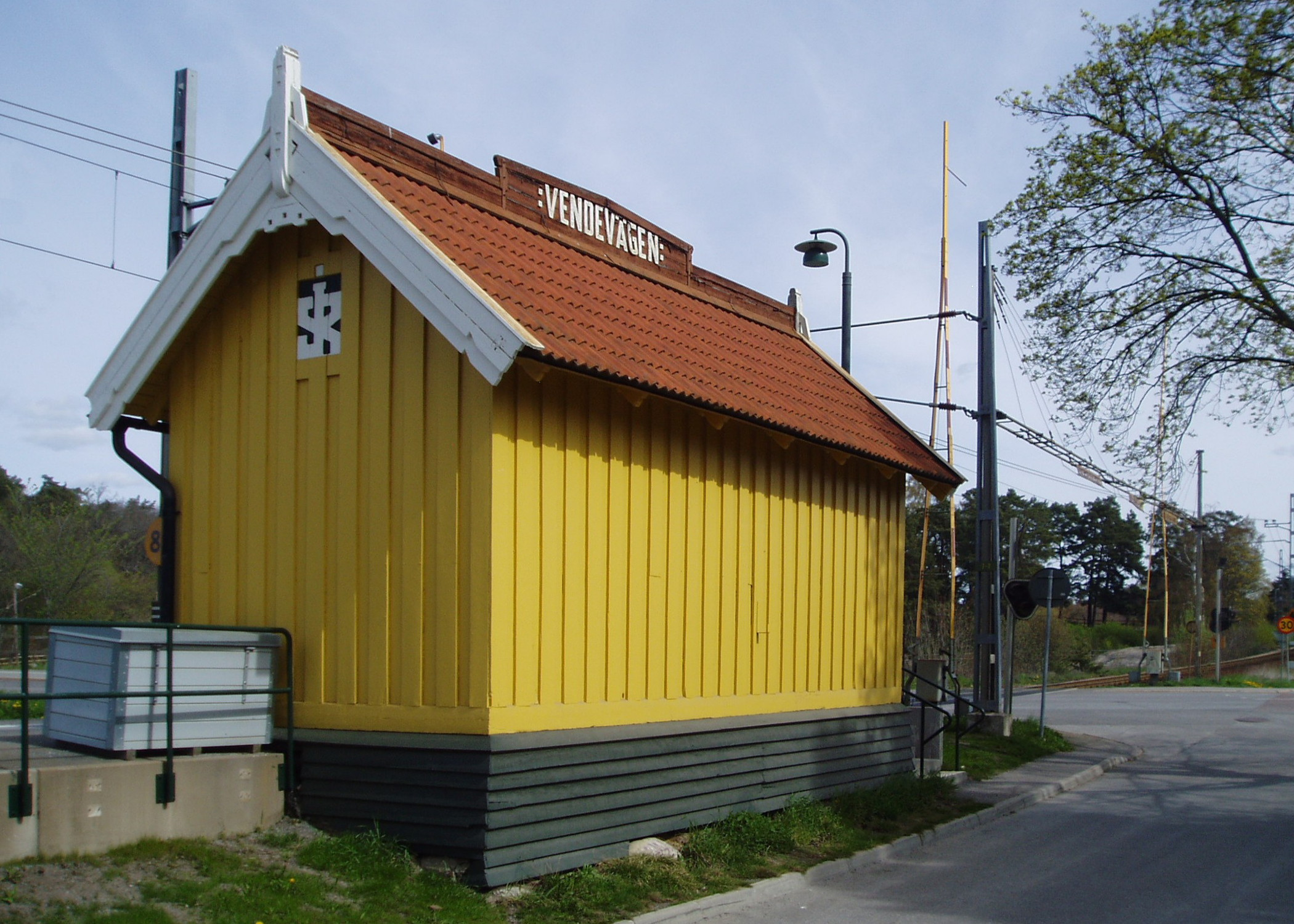 The railway station Vendevägen, north of Stockhom, Sweden, May 2012